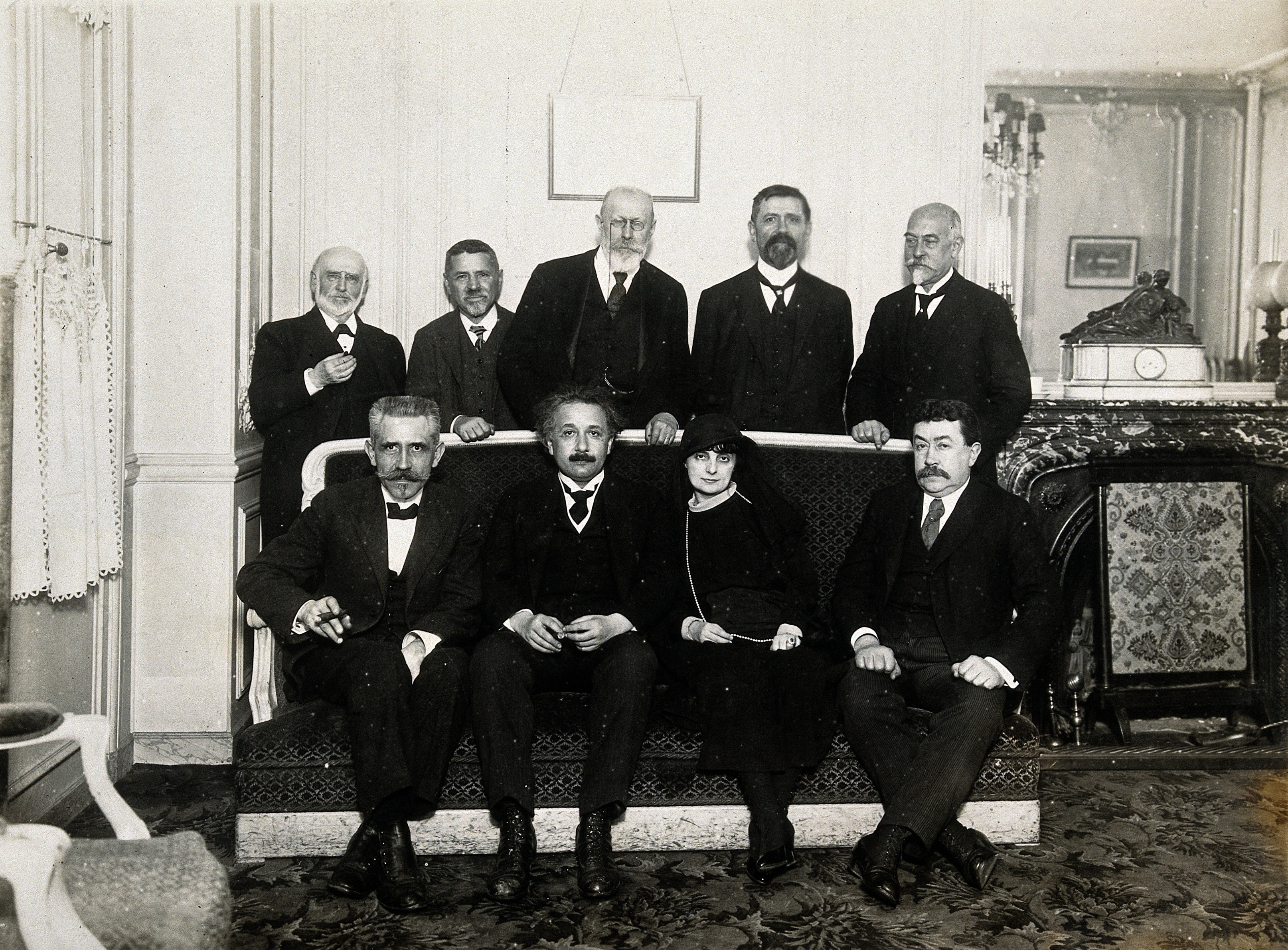 Lunch in honour of Albert Einstein, with (front row) Langevin, Einstein, Comtesse de Noailles, Painlevé. Photograph. Iconographic Collections Keywords: portrait photographs